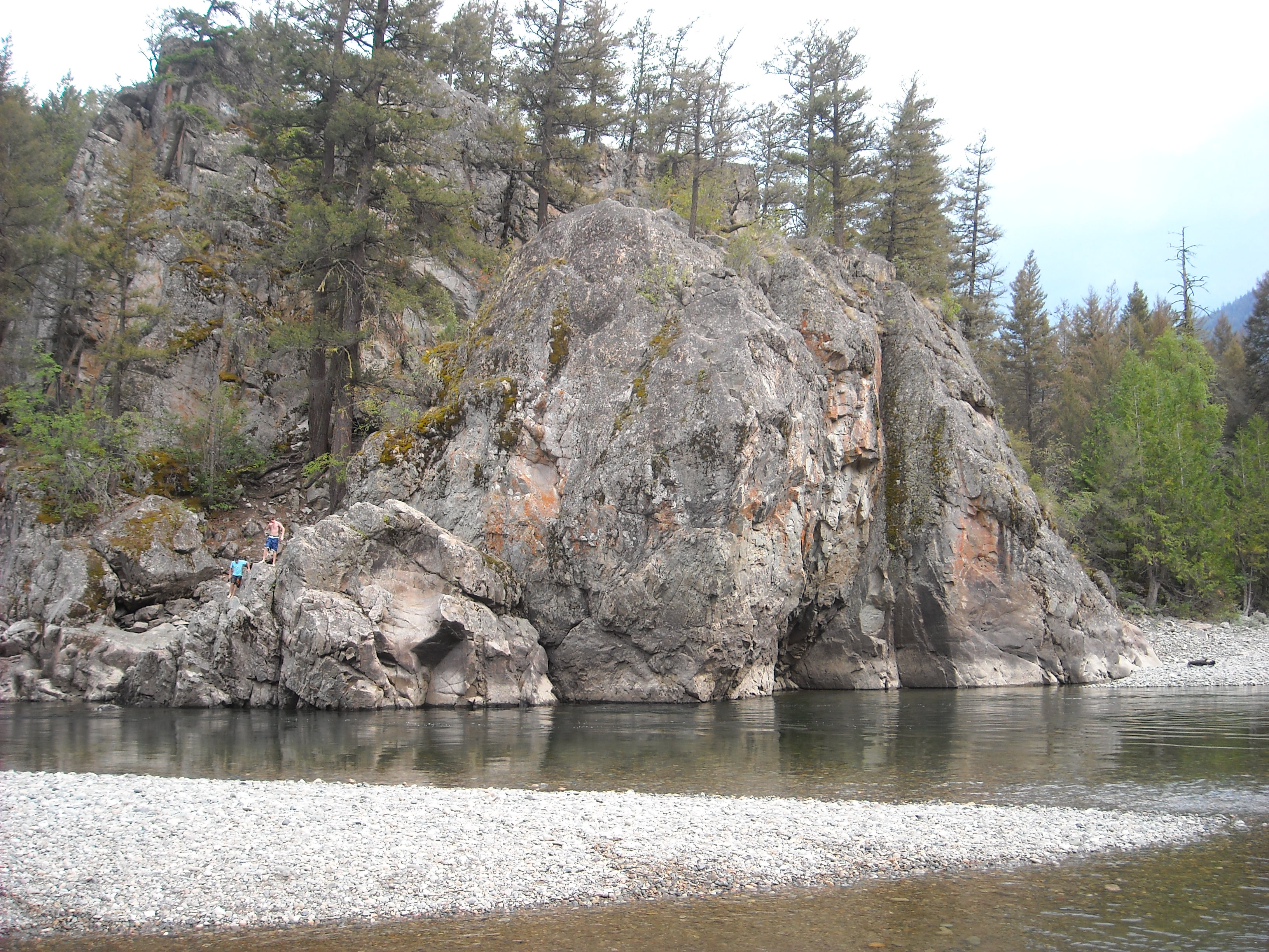 These rocks make a great place to cliff jump from. If you jump from the very top it is about 50 feet down. This image was taken from the beach on the other side of the Similkameen River.